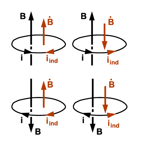 Lenz' law of electromagnetism